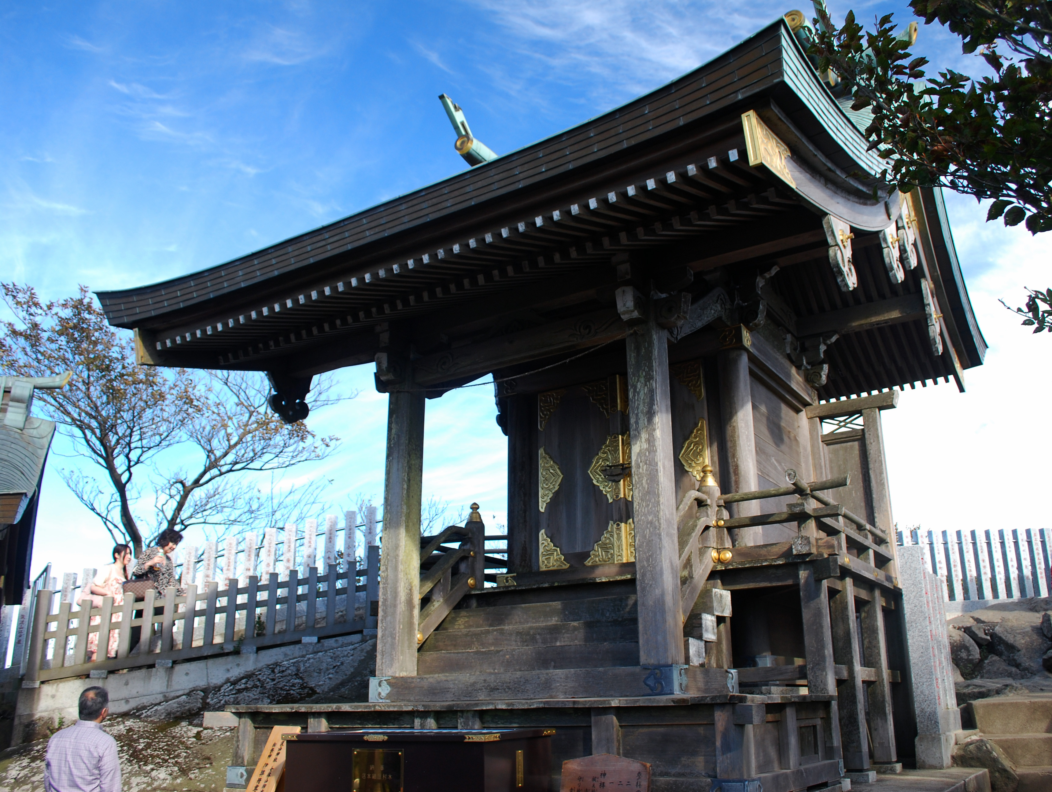 Mount Tsukuba - shrine on lower peak